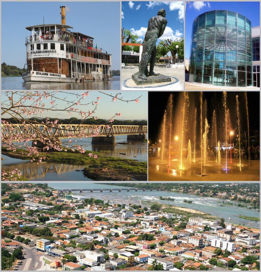 Montage about Pirapora, Minas Gerais, Brazil